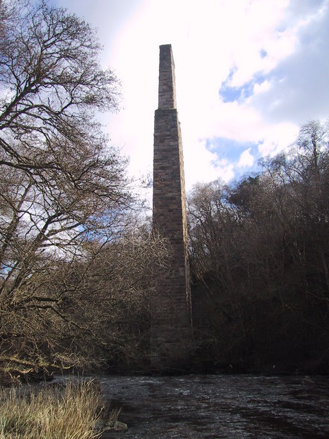 Remains of Nethan Viaduct This was the highest railway viaduct in Scotland, I have been told